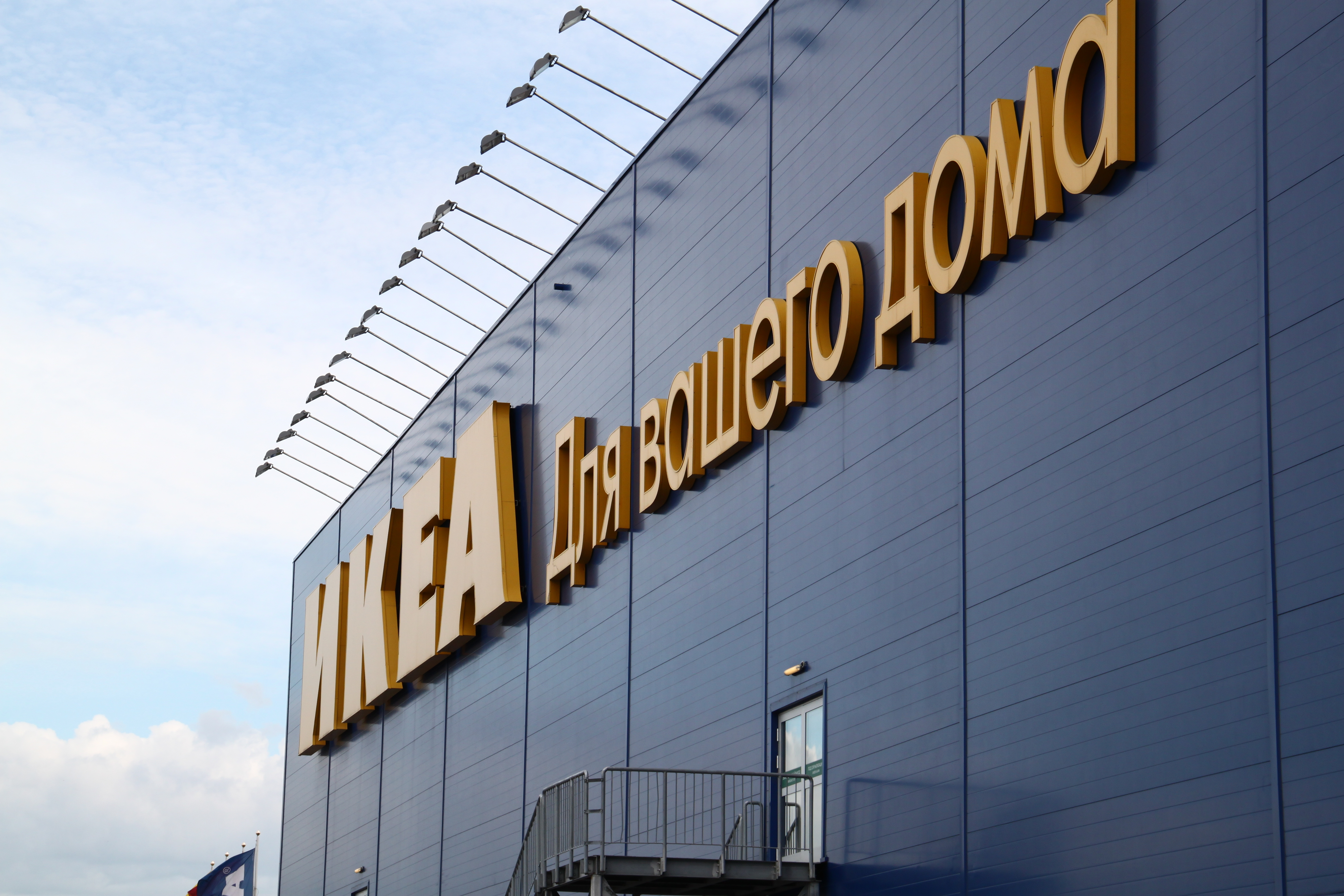 IKEA in Novosibirsk, Russia